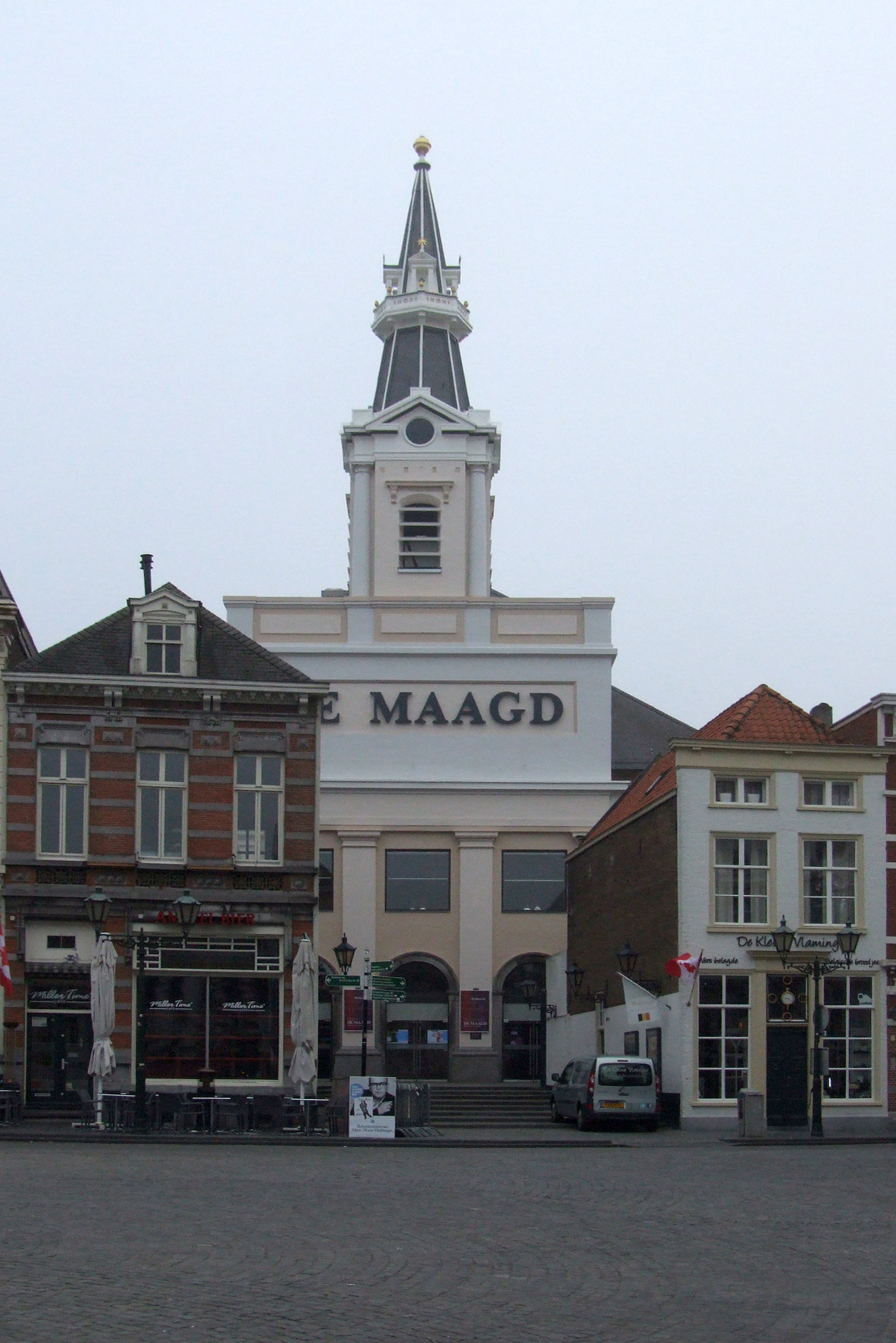 Exterior Theater 'Heilige Maagdkerk', Bergen op Zoom (The Netherlands)